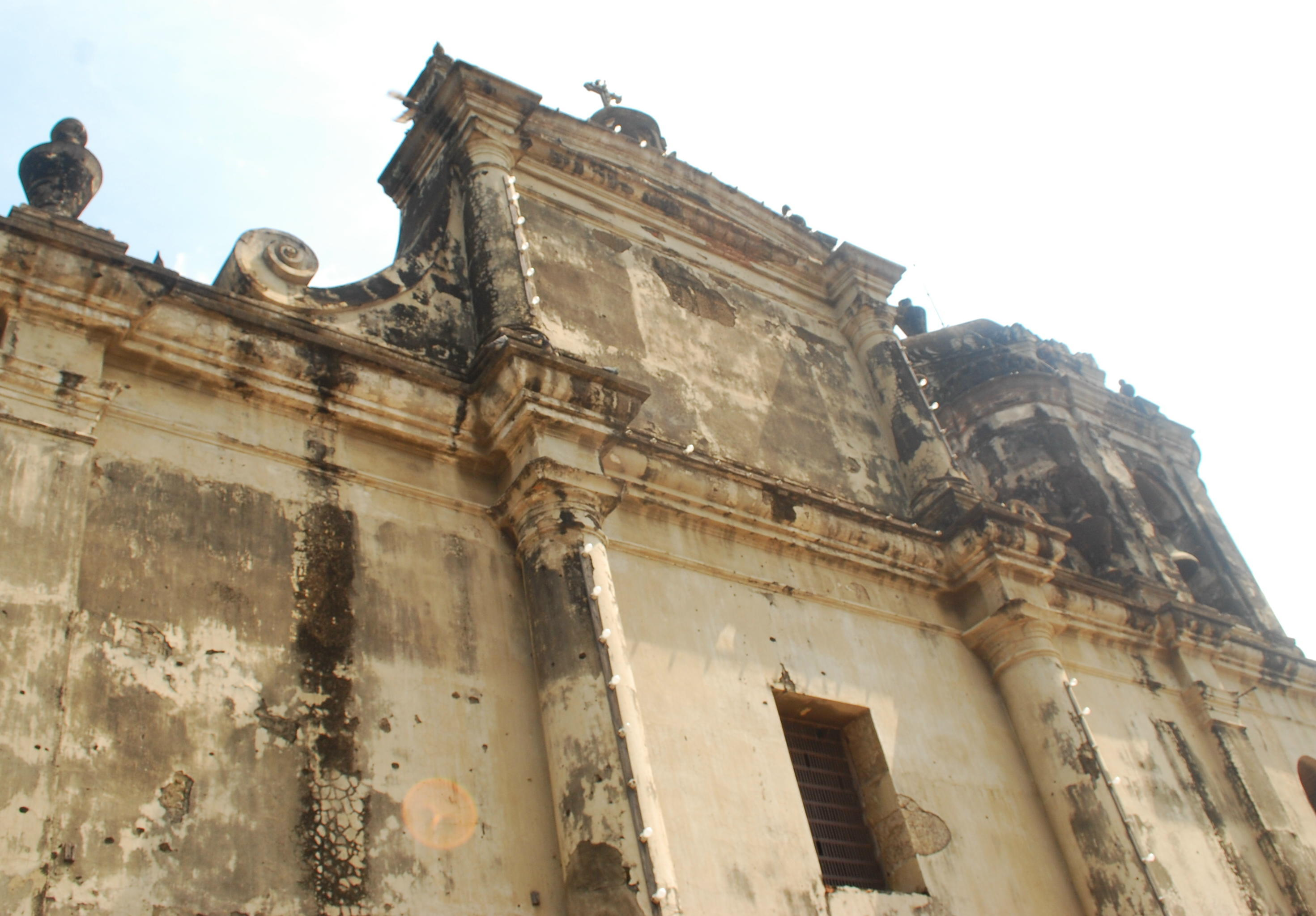 Ruined and abandoned church of San José, León, Nicaragua